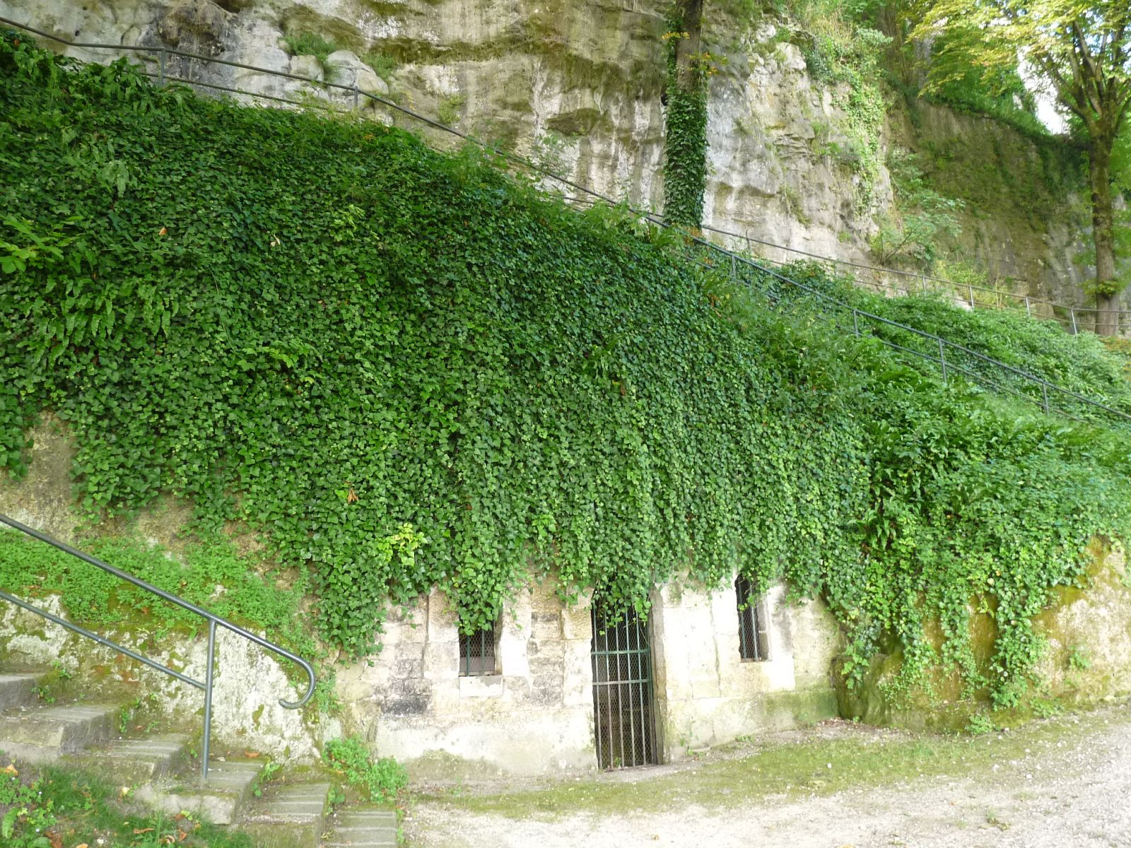 St Cybard's grotto, under the city wall of Angoulême (Charente, SW France)